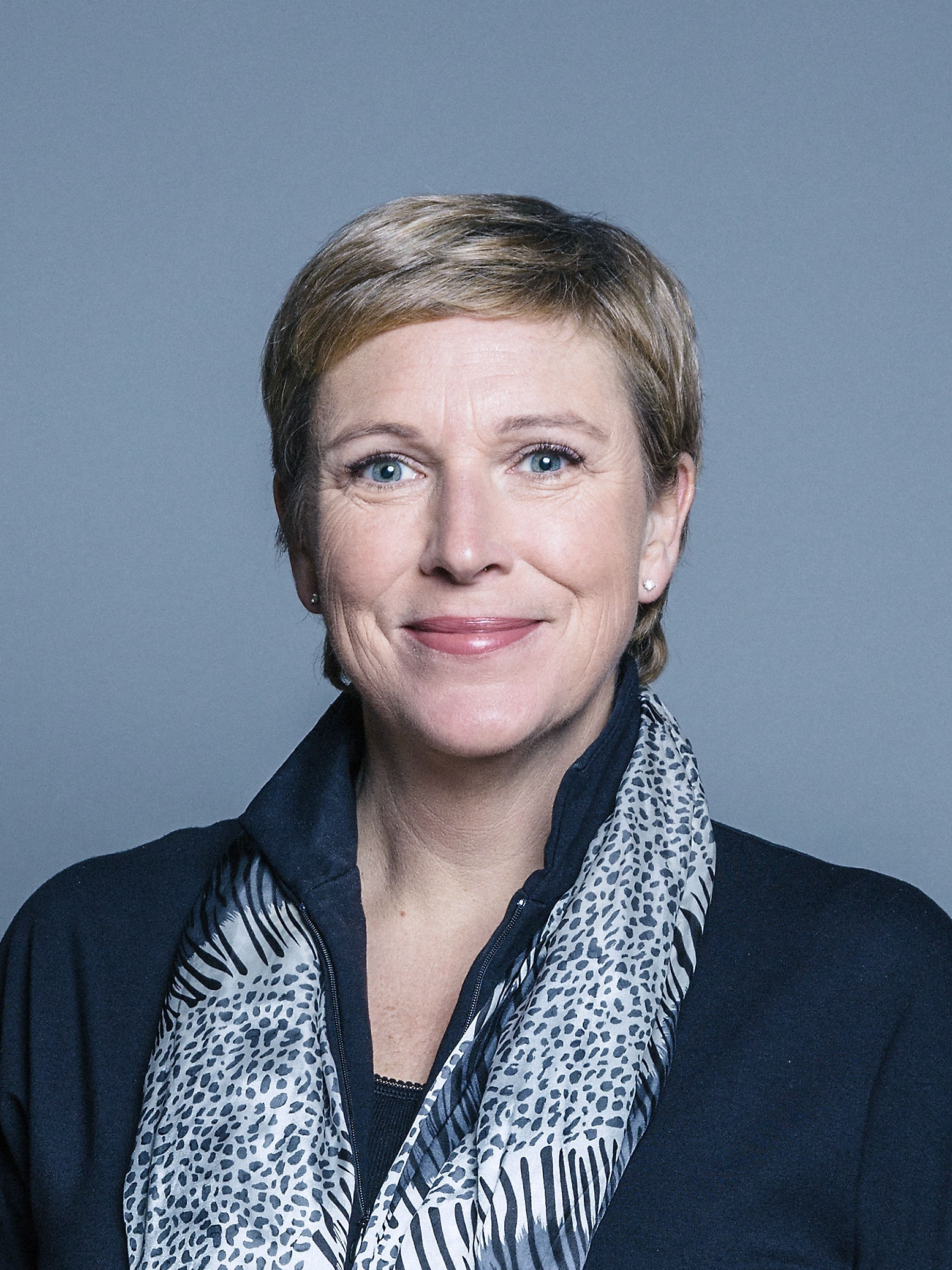 Official portrait of Baroness Vere of Norbiton